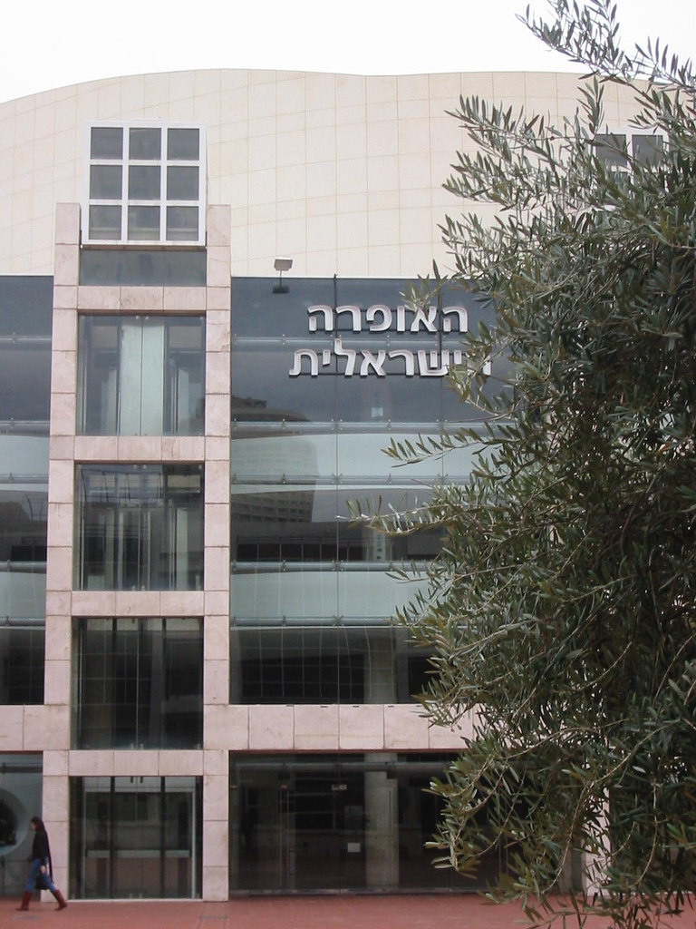 Golda Meir Centre (opera house), Tel Aviv